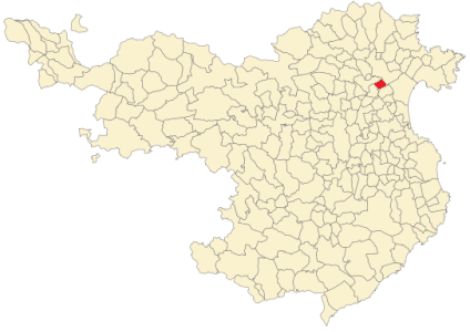 Vilasacra